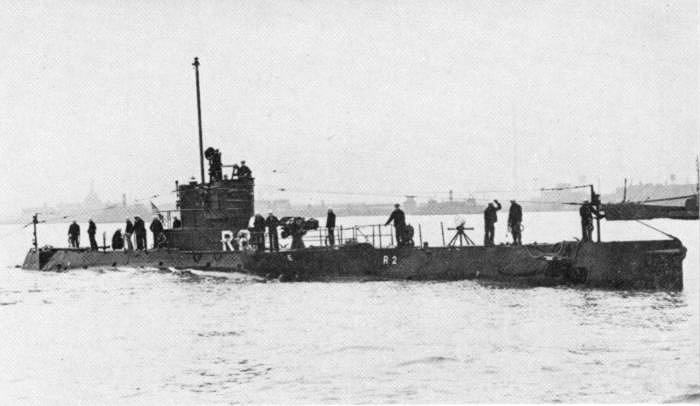 United States Navy submarine arriving at the Battery in New York City during the 1939 New York World's Fair